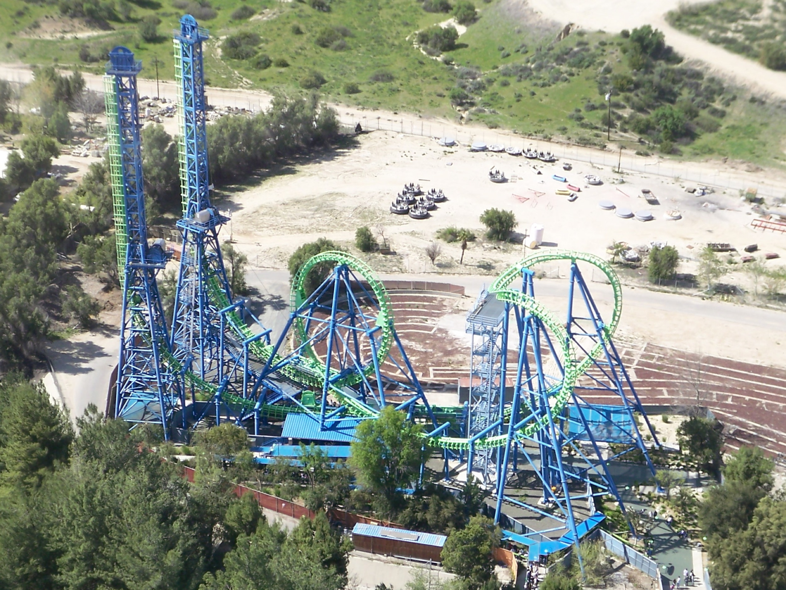 Déjà Vu at Six Flags Magic Mountain theme park as viewed from Sky Tower